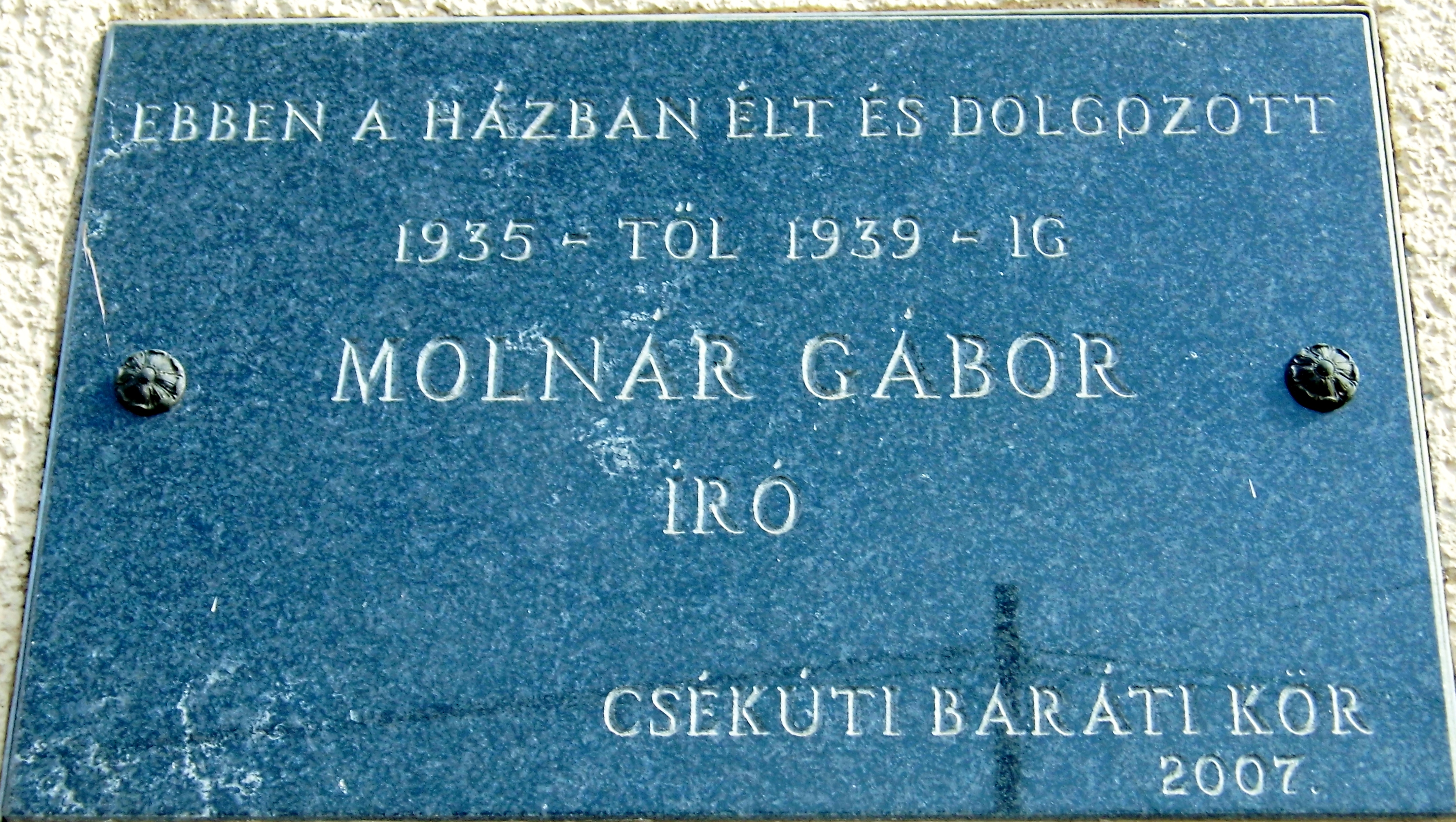 Plaque of Gábor Molnár, 20 Padragi Street, Csékút (Ajka-Padragkút)